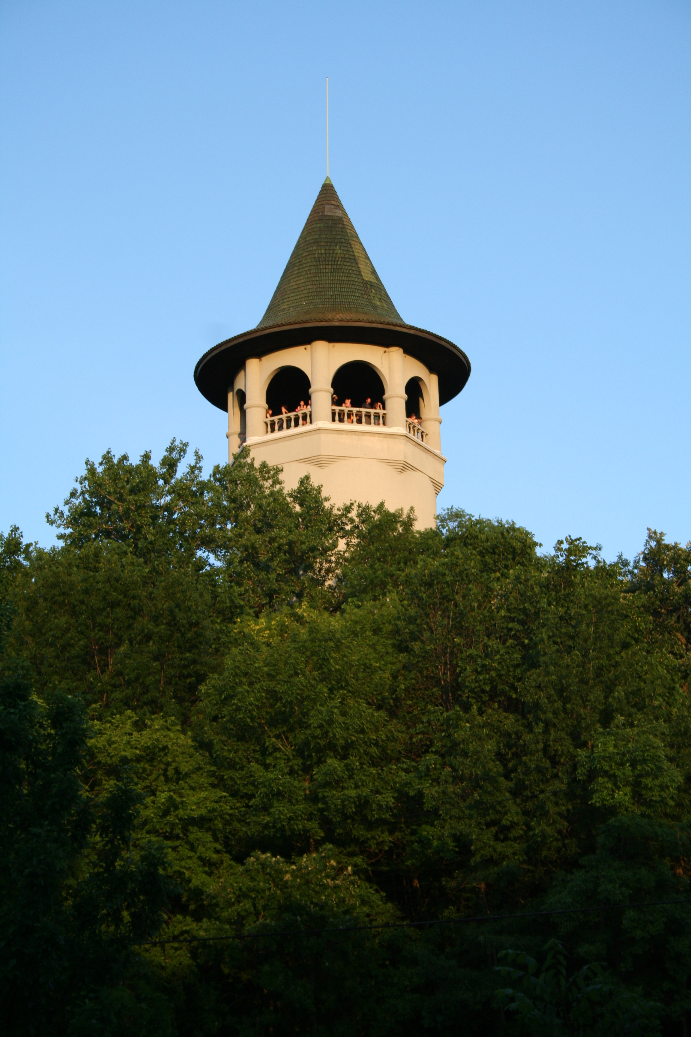 Prospect Park Water Tower (a.k.a. the Witch's Hat) at Tower Hill Park, Prospect Park, Minneapolis, Minnesota, USA. Taken on the Friday after Memorial Day, the one day of the year people are allowed to climb the tower (note the people at the top).